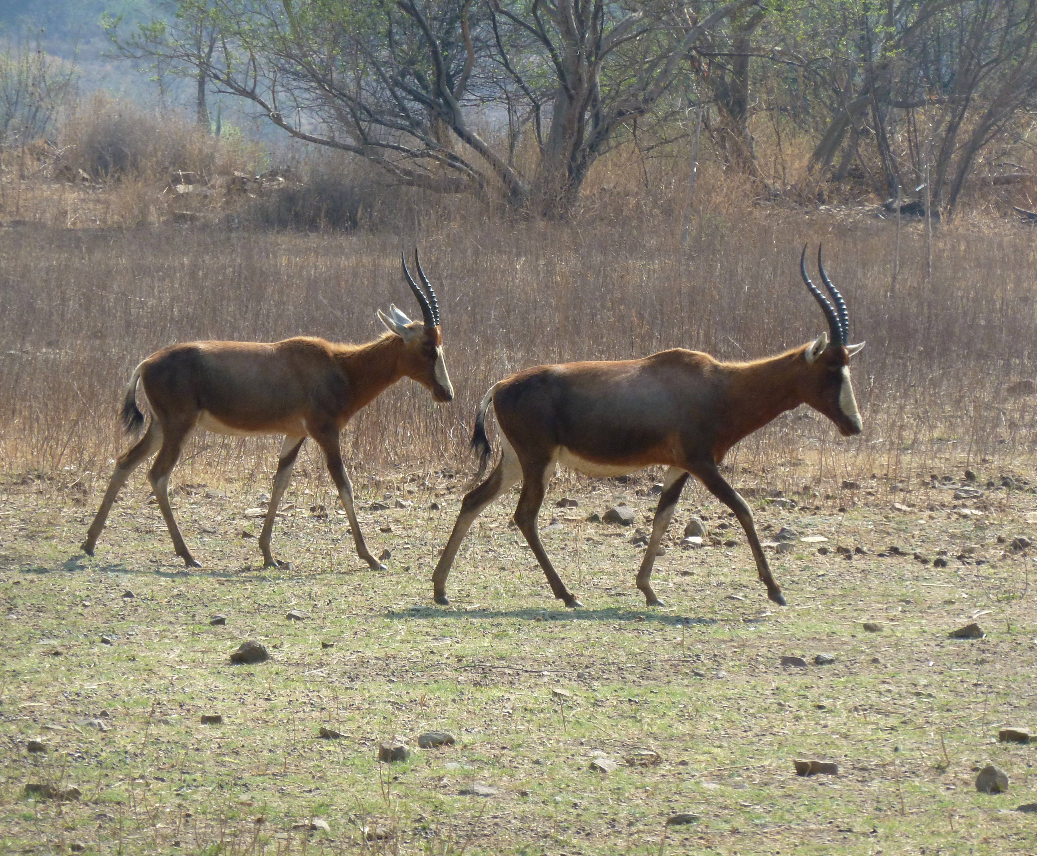 Blesbuck in the Moreletakloof Municipal Nature Reserve, Pretoria